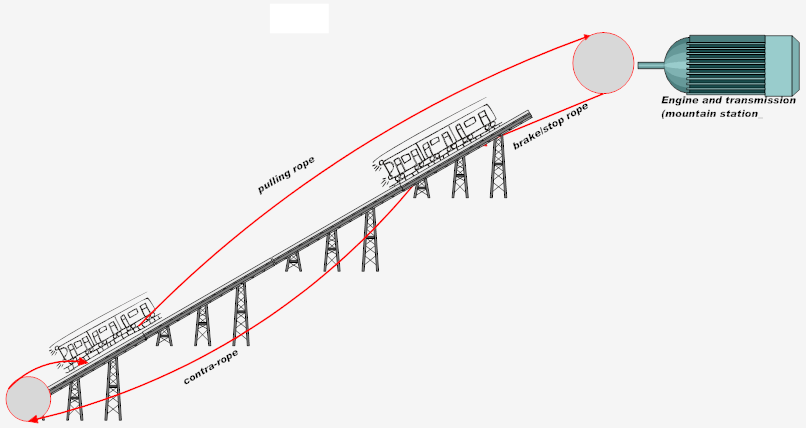 new schematic drawing of Funival, Val d'Isere, previous techn. incorrect